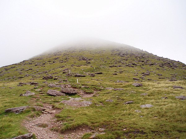 Boulder fields and clouds. The cloud layer can clearly be seen in this photograph. Local people say that mt Brandon is cloud capped for 95% of the year. The pathway, marked by white plastic posts, gently winds its way around to the right flank of the mountain at this point.